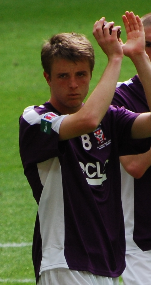 Adam Boyes playing for York City against Stevenage Borough at Wembley Stadium, London on 9 May 2009